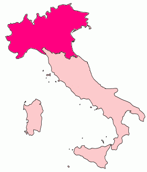 Map of Italy, shows fantasy region of Padania, as seen by the Lega Nord